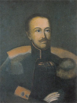 A 19th-century portrait of Pavel Katenin (1792-1853).